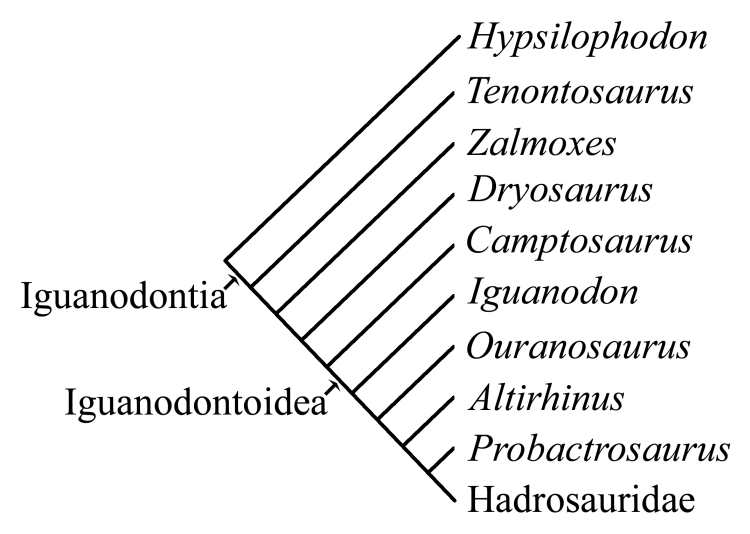 Simplified cladogram of Iguanodontia, drawn by me, based on Norman 2004 ("Basal Iguanodontia" in The Dinosauria 2nd Edition).